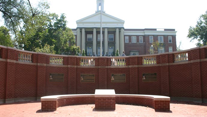 This photo contains an image of the Emory & Henry College Alumni Plaza.